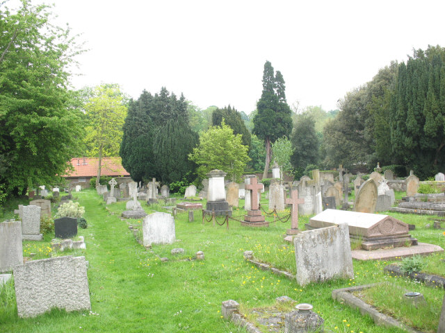 St Peter's churchyard. The churchyard belonging to Petersham parish church 794821.